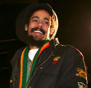 Damian Marley (Junior Gong; Damian "Junior Gong" Marley) in Leeds.